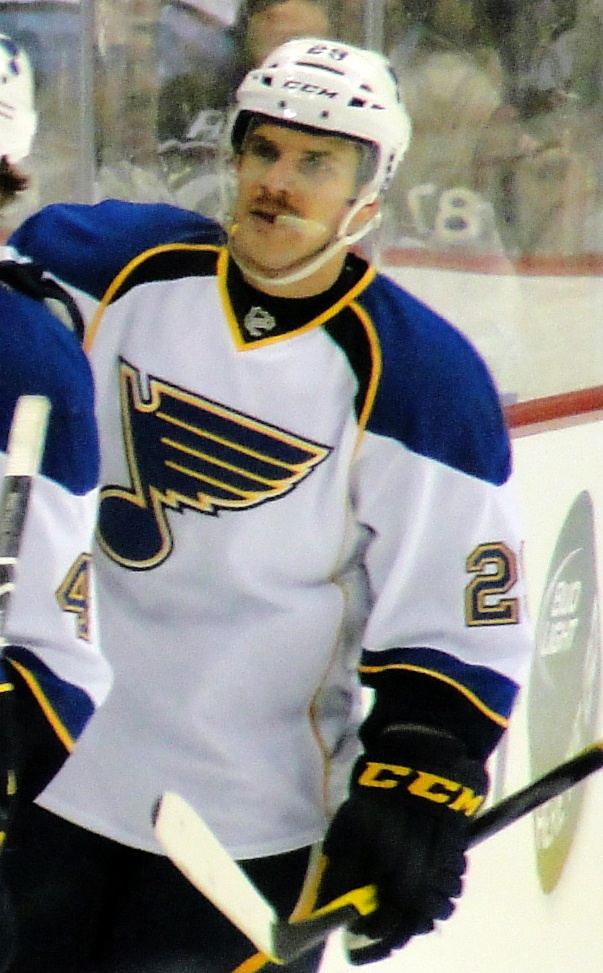 Brett Sterling's return to Pittsburgh as a member of the St. Louis Blues in this November 23, 2011 game at Consol Energy Center.